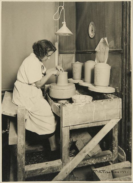 Photograph of the Finnish ceramist Toini Muona (1904–1987) at work.